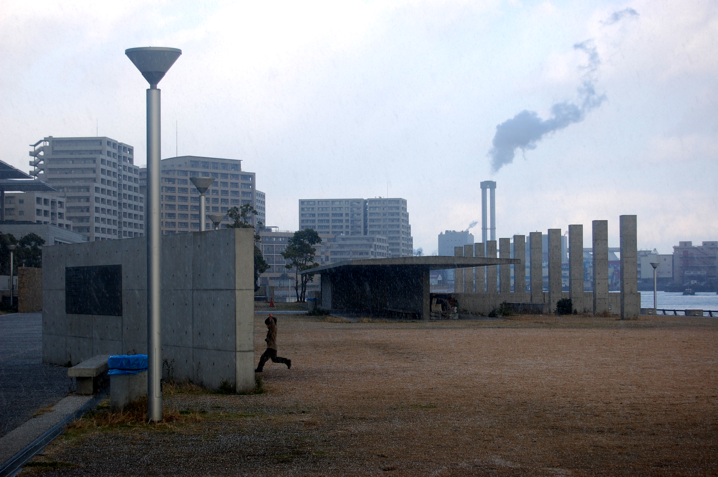 Kobe waterfront plaza next to Hyogo prefecture museum